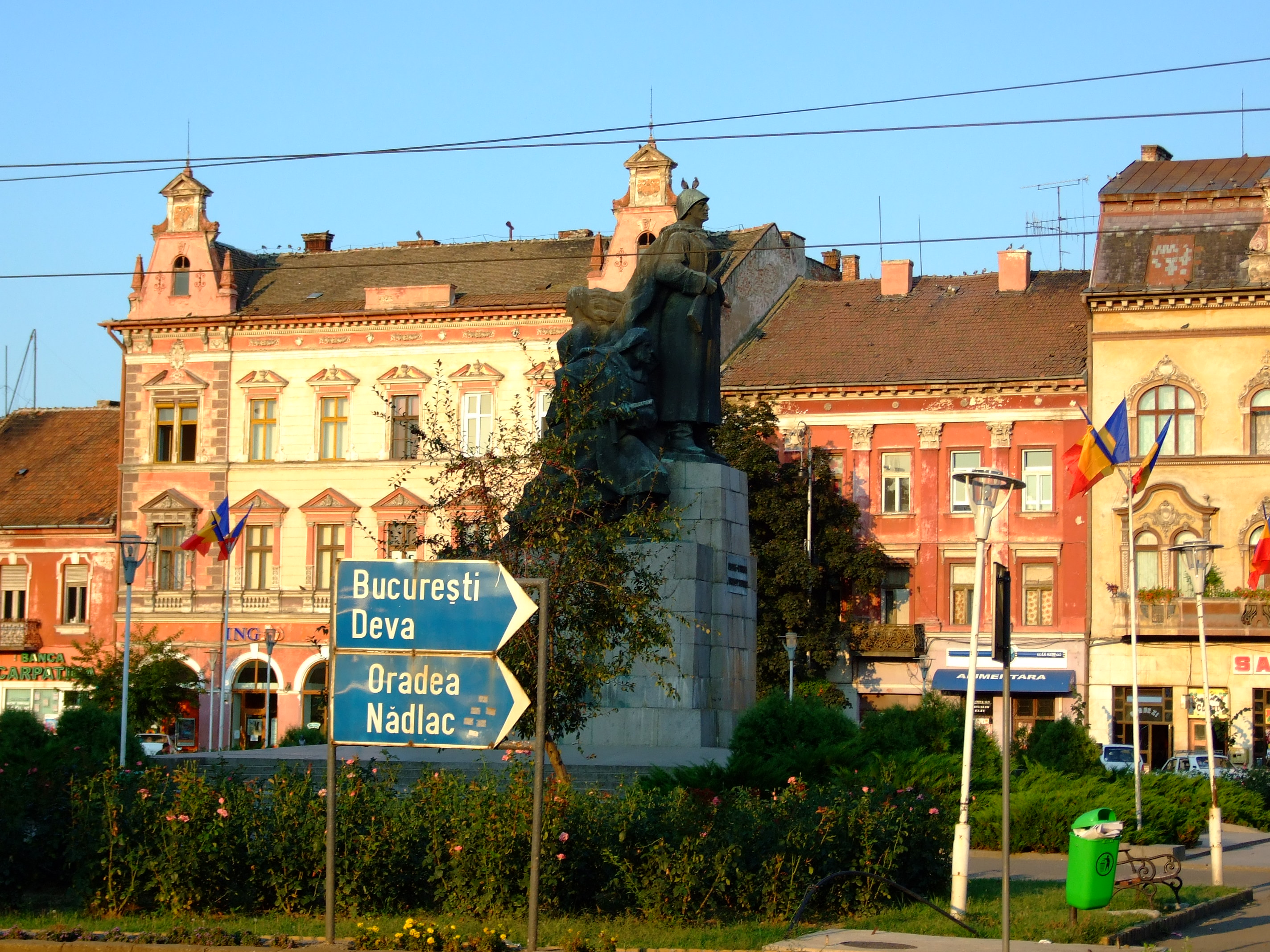 Monument in Arad square Avram Iancu, Romania